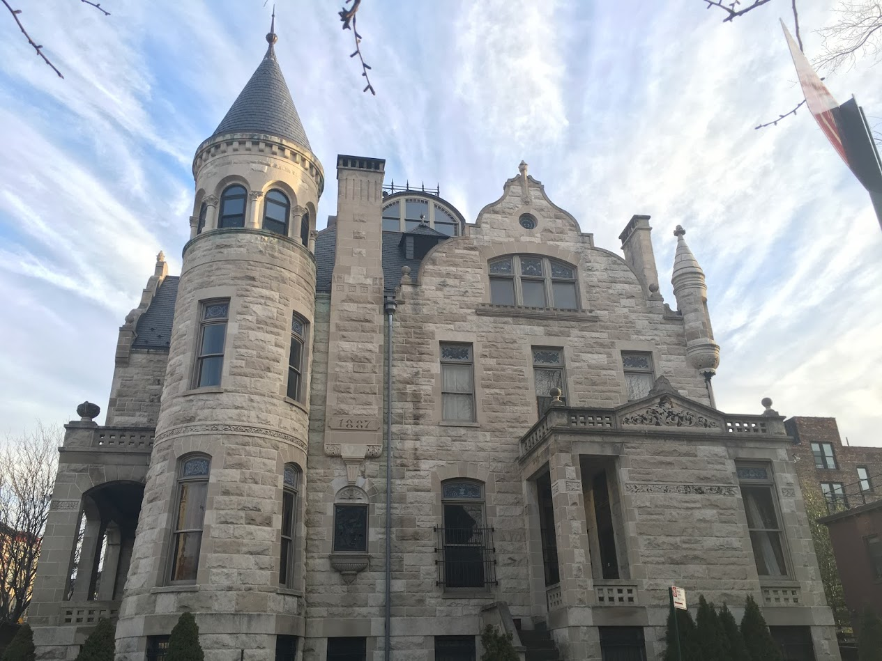 Bailey House from South